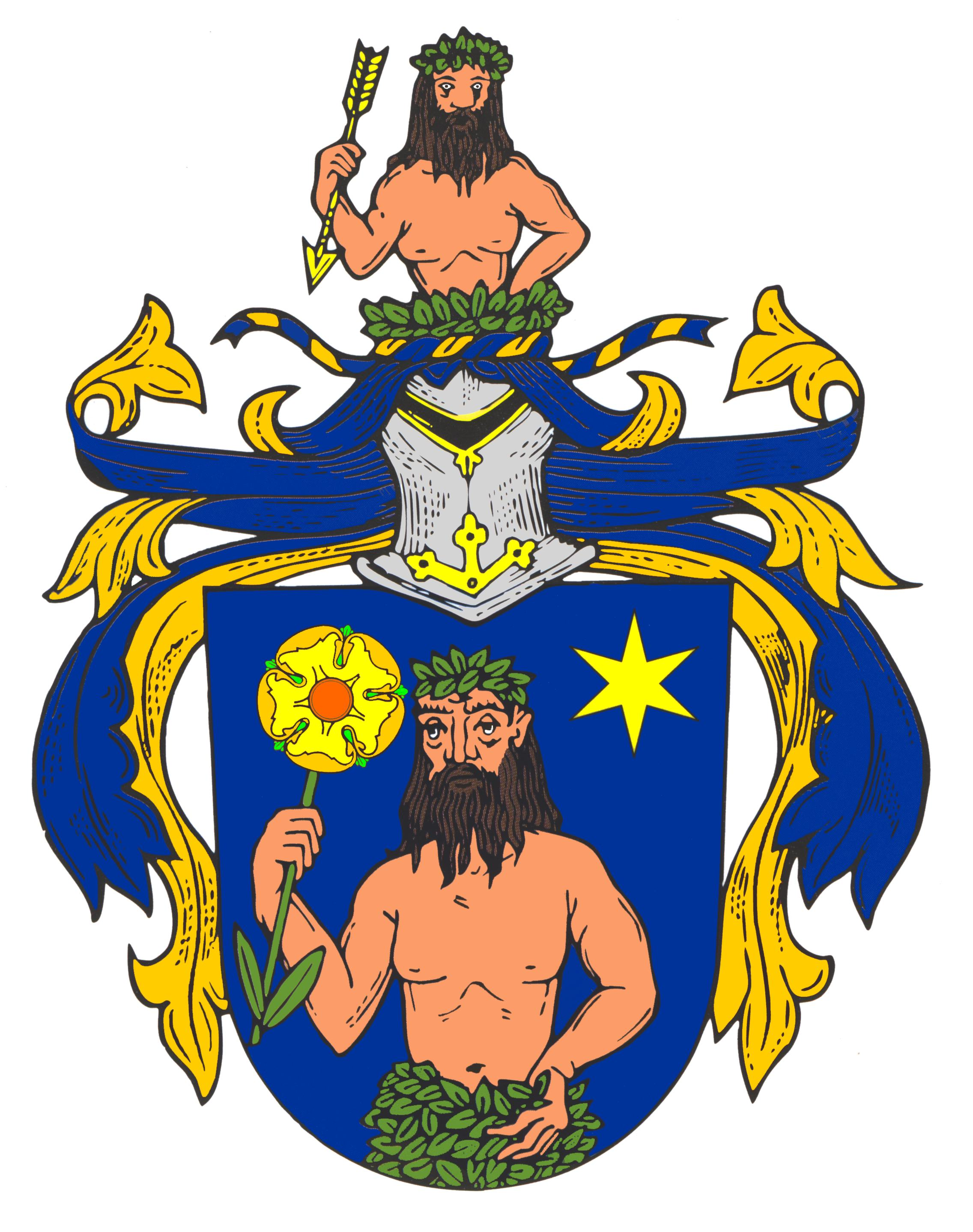 Znak města Kostelce nad černými lesy